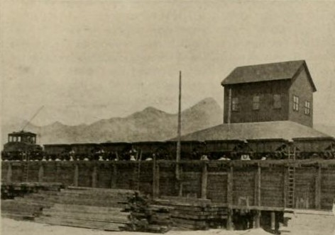 Title: The street railway review Year: 1891 (1890s) Authors: American Street Railway Association Street Railway Accountants' Association of America American Railway, Mechanical, and Electrical Association Subjects: Street-railroads Publisher: Chicago : Street Railway Review Pub. Co